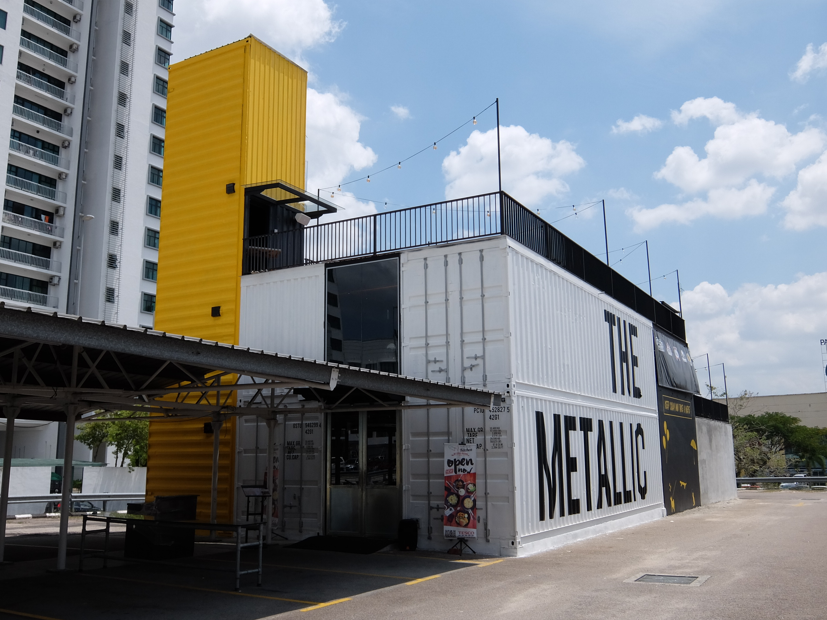 The Metallic Kitchen, Tesco Bukit Indah, Bukit Indah, Iskandar Puteri, Johor Bahru, Johor, Malaysia